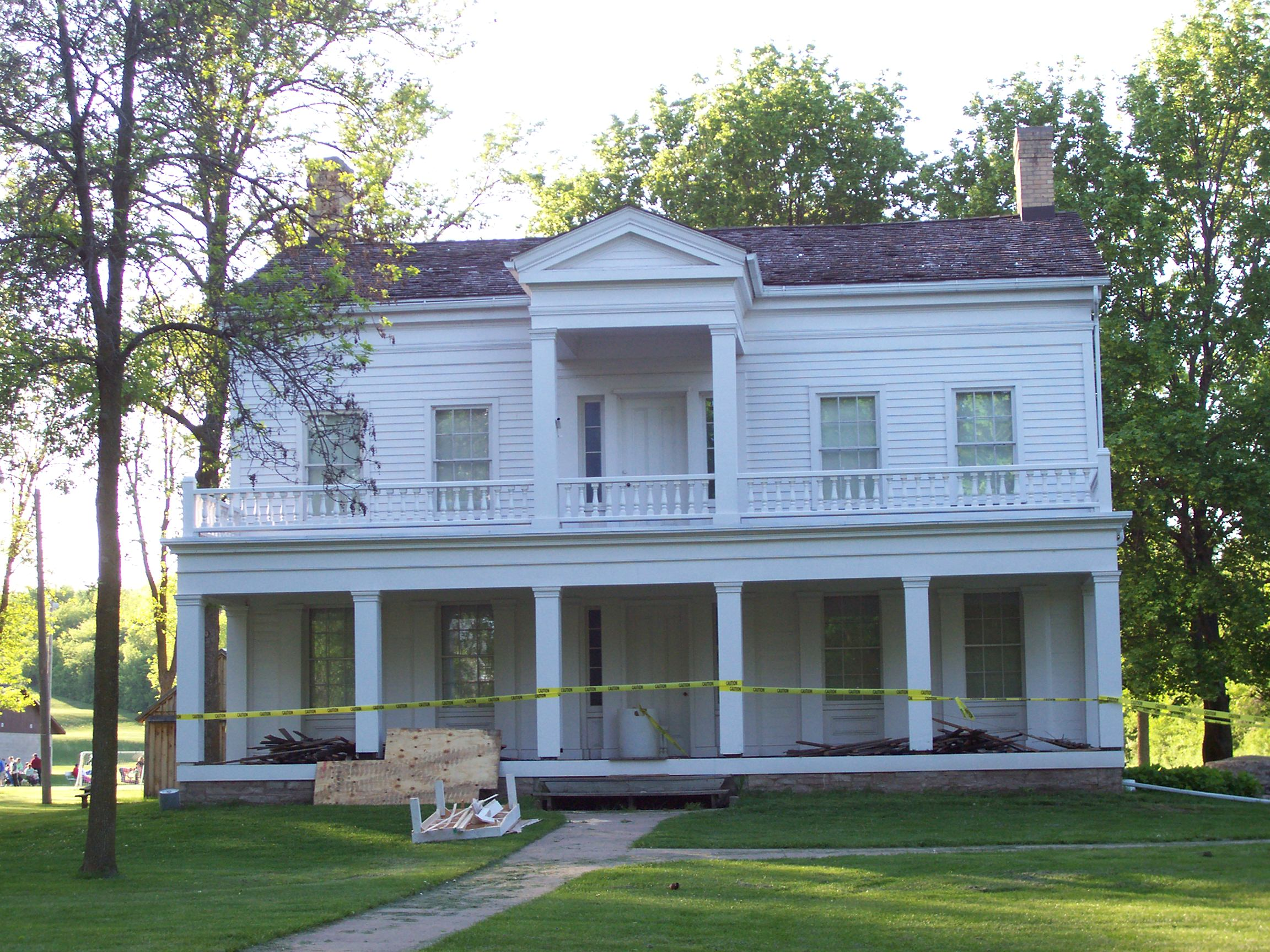 The Charles A. Grignon House, a Kaukauna, Wisconsin house listed on the national register of historic places. It was site of the first deed in Wisconsin.